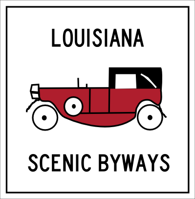 Signage for the Louisiana Scenic Byways routes.